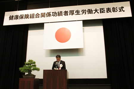 Mitsuru Sakurai, Senior Vice-Minister of Health, Labour and Welfare, attended the commendation ceremony at the Central Government Building No.5 in Chiyoda Ward, Tōkyō Metropolis on October 10, 2012. (For terms of use, see 利用規約｜厚生労働省.)